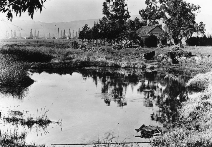 La Brea Tar Pits and Hancock ranch house, Los Angeles. Notice oil wells of the Beverly Hills Oil Field, during the Los Angeles oil boom era.